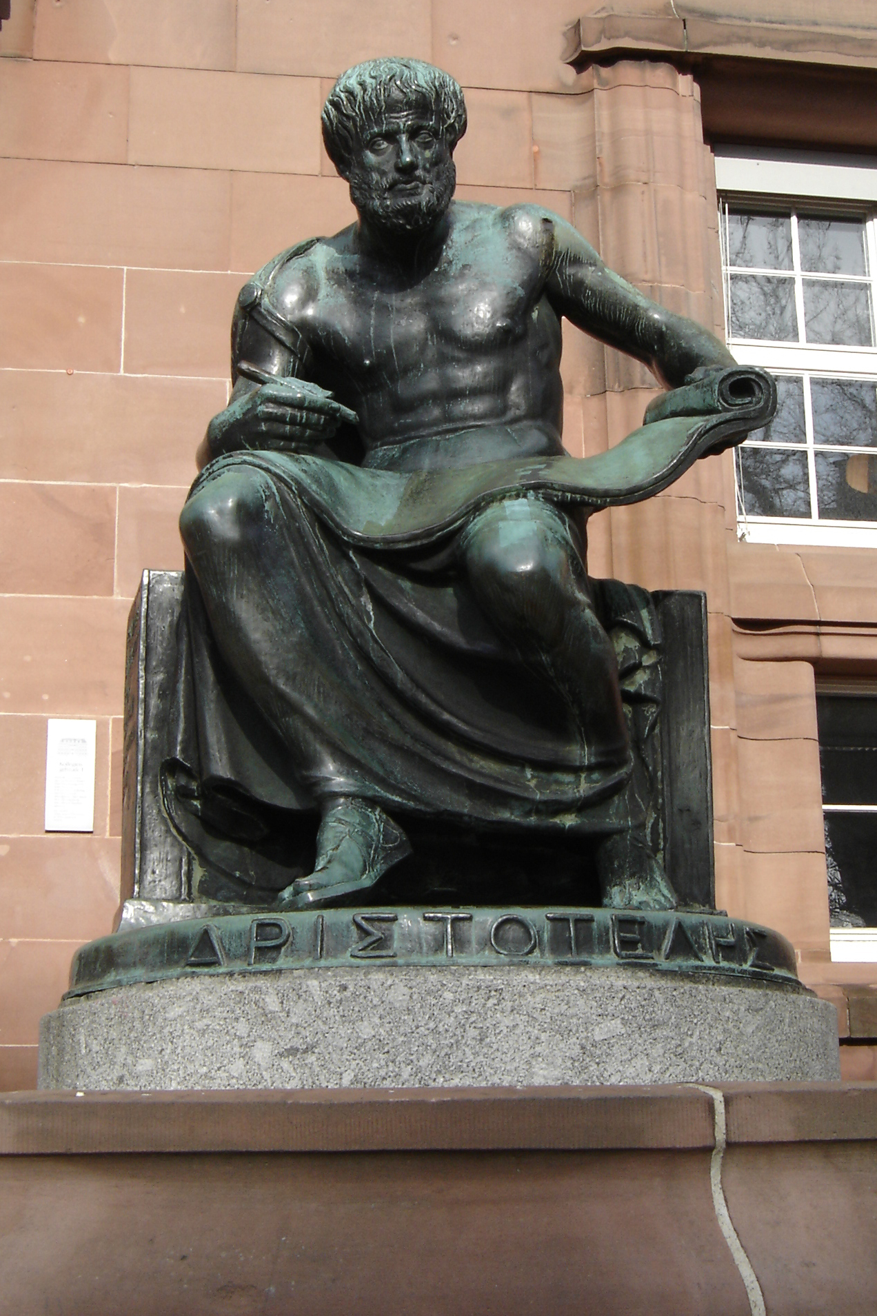 Statue of Aristotle at the university of Freiburg im Breisgau, Germany.